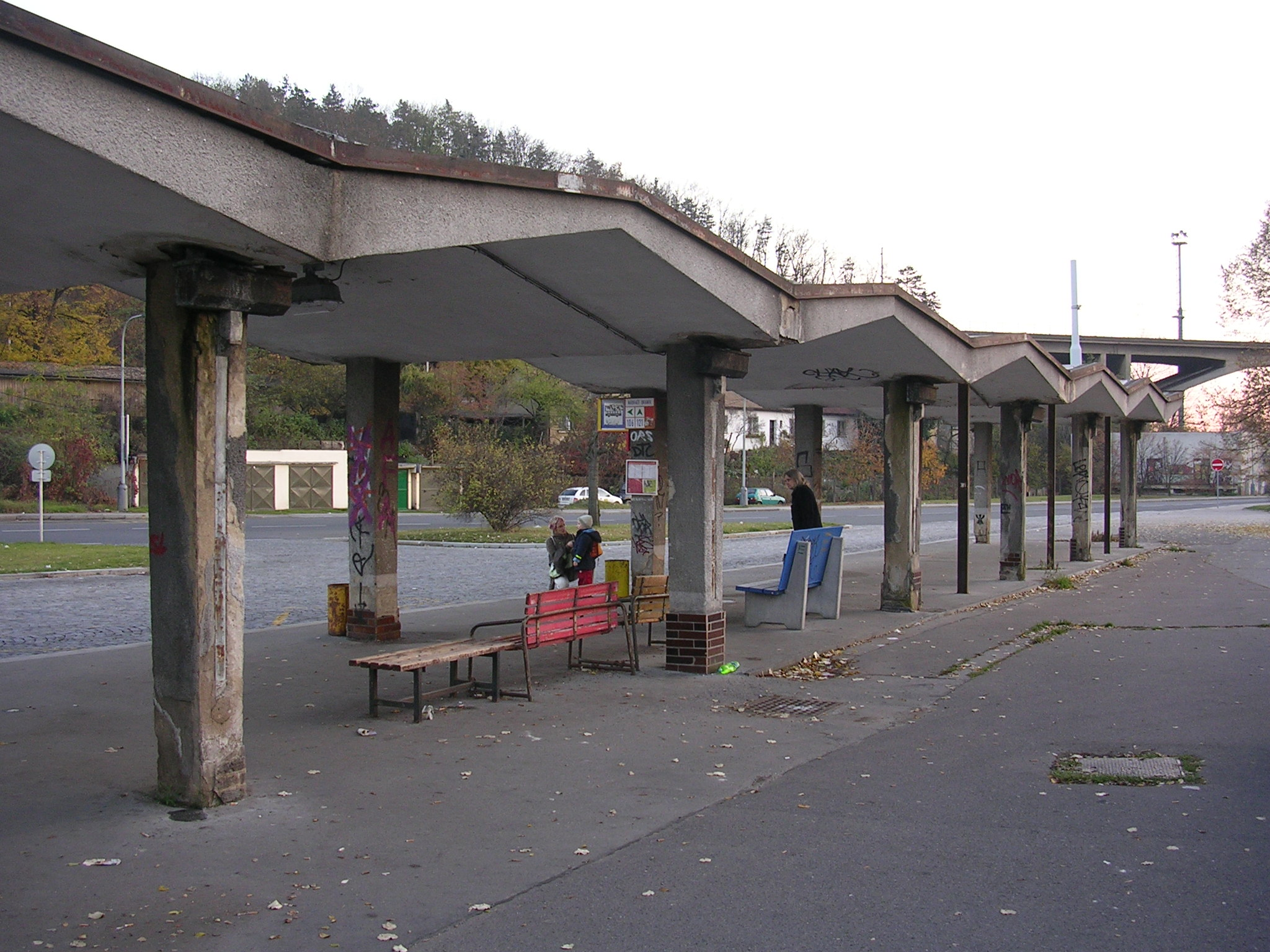 Braník, Prague.